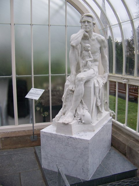 "King Robert of Sicily" - sculpture in Kibble Palace The accompanying plaque reads:- "King Robert of Sicily - about 1927 George Henry Paulin (1888-1962) - marble The tale of King Robert comes from a poem by HW Longfellow (1807-1882). He was an arrogant king who was deposed by an angel, stripped of his robes, and forced to assume the role of a jester, with only a monkey for a friend. Paulin was born in Muckhart, near Alloa, and worked in London and Glasgow. He made several war memorials and numerous portrait busts. Bought in 1927 Glasgow Museums (S177)"